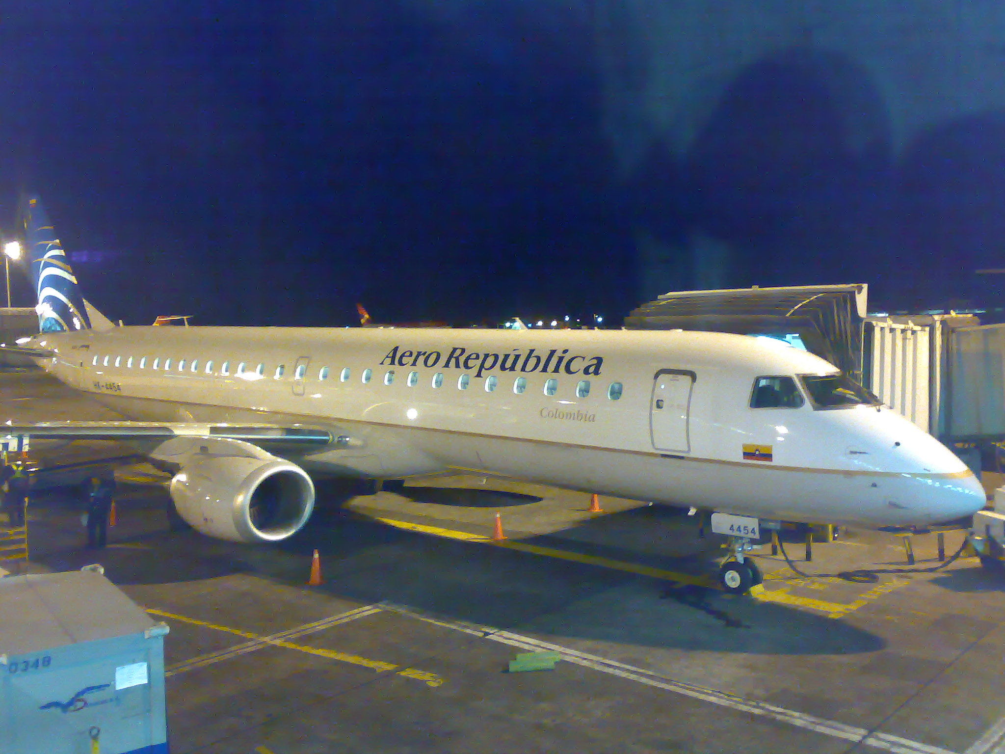 An Embraer 190 jet by the Colombian airline AeroRepública at El Dorado International Airport, Bogotá, Colombia.